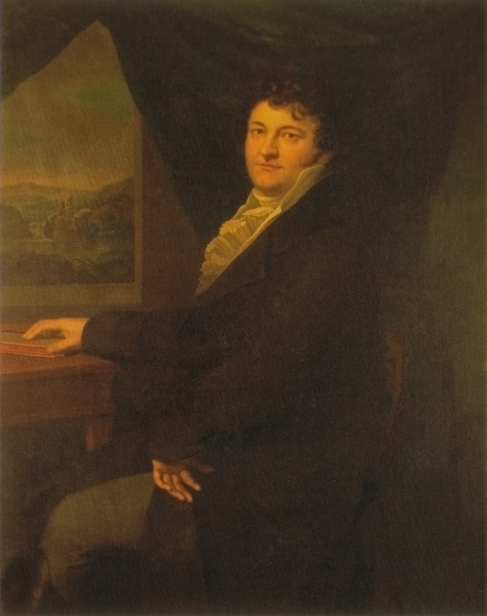 Ludwig Wucherer (1790–1861), German businessman